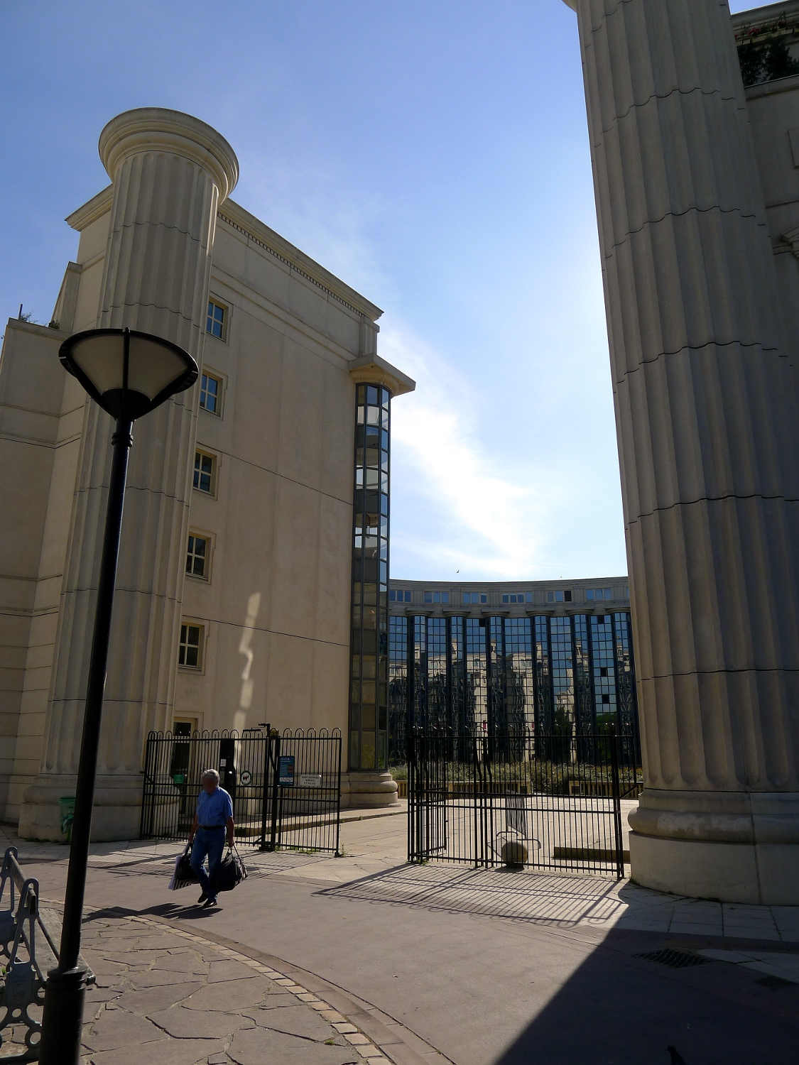 Séoul place - Paris